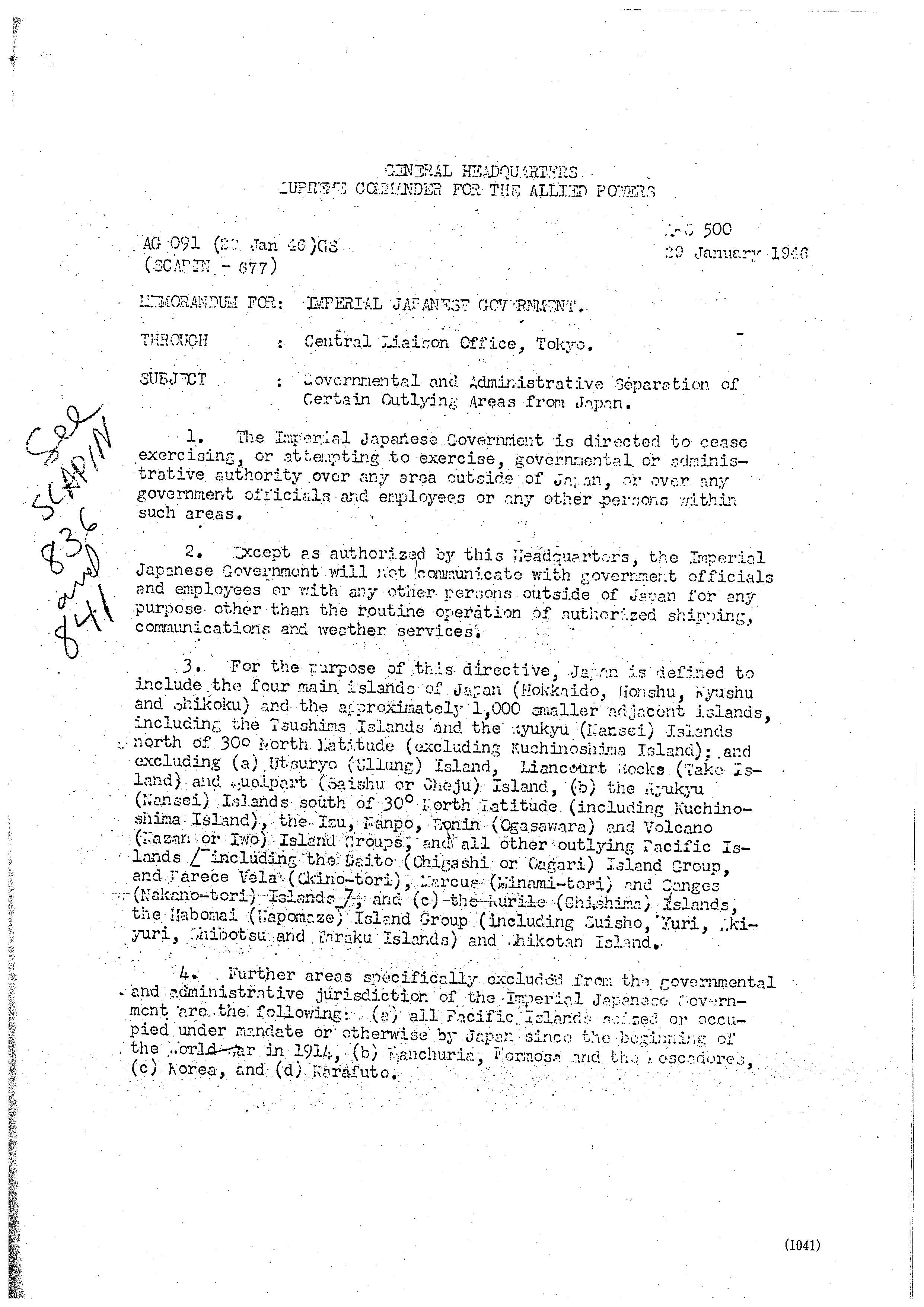 Governmental and Administrative Separation of Certain Outlying Areas from Japan